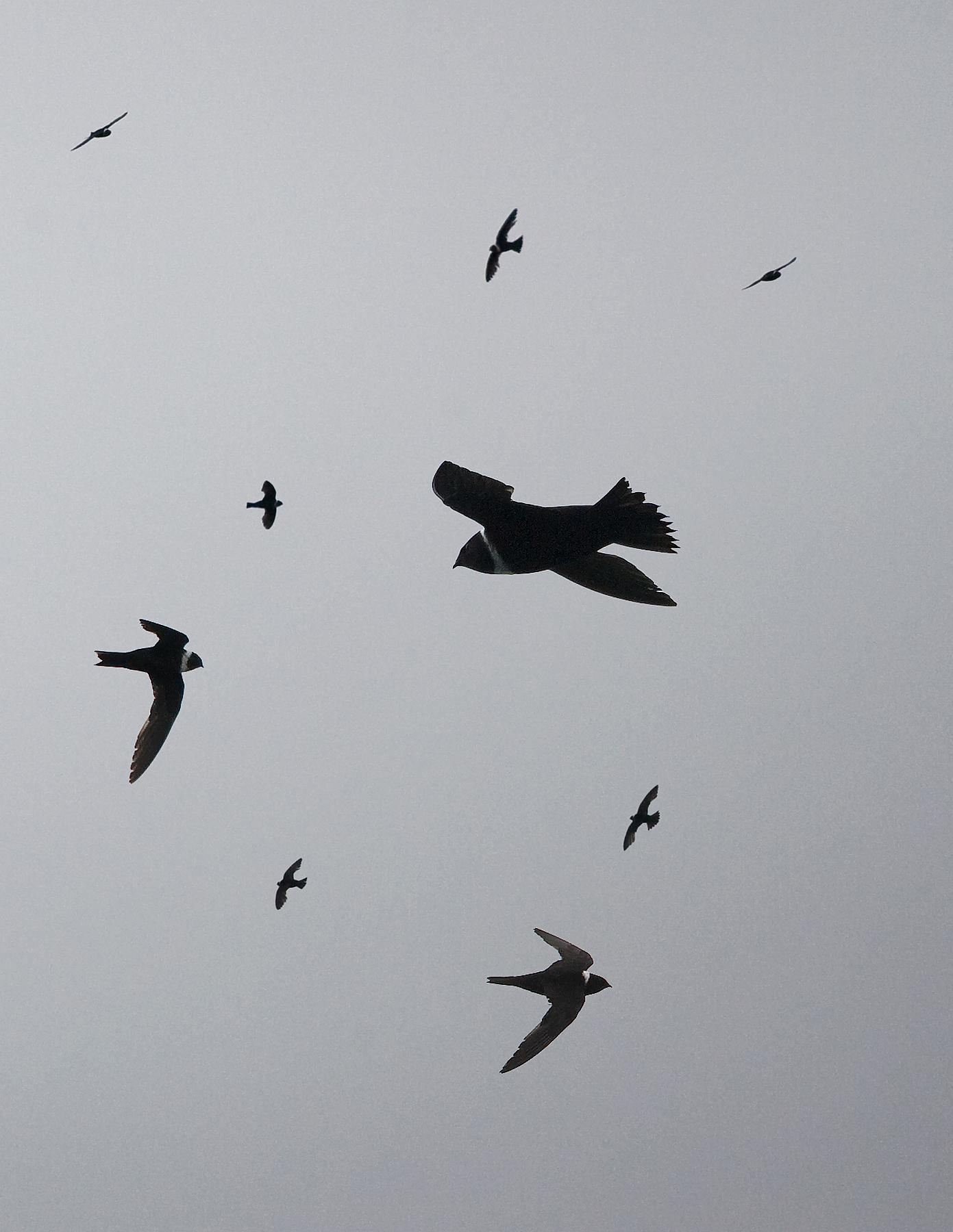 White Collared Swift From The Crossley ID Guide Eastern Birds